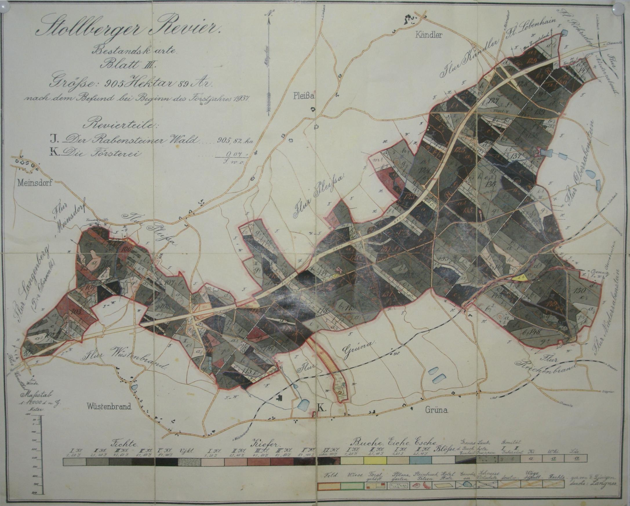 Forest of Rabenstein 1936.